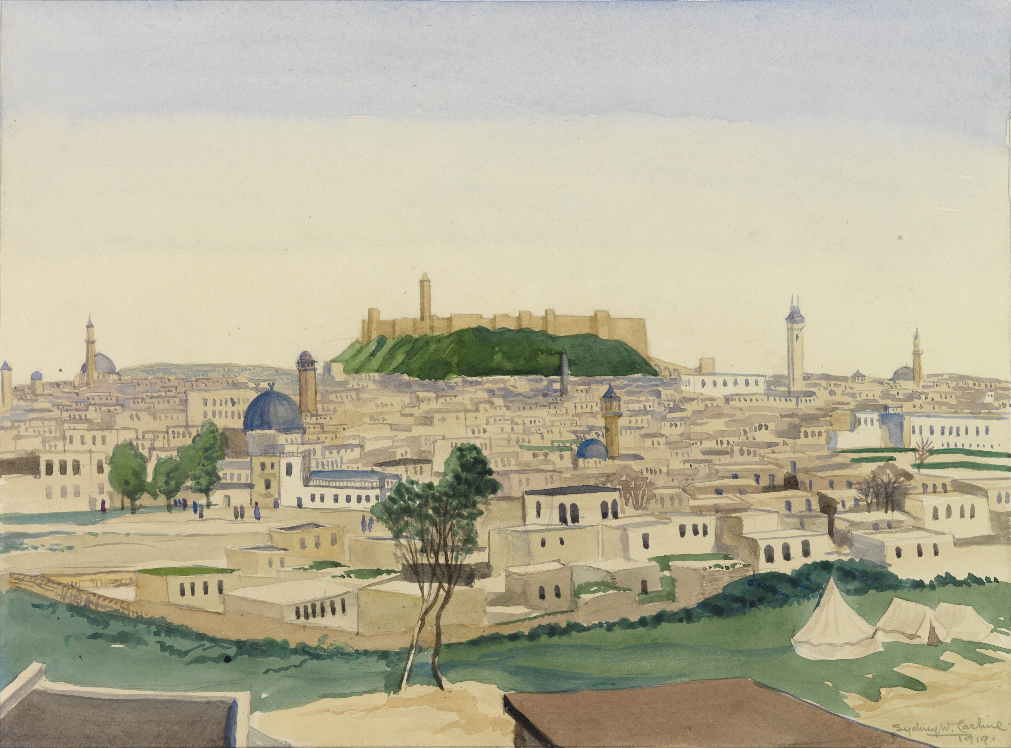 Aleppo, Syria, 1919 image: a view overlooking the city of Aleppo showing the white, flat-roofed buildings and minarets of domed mosques. In the distance is a large fortification built on a grassy mound. Three tents are pitched in the lower right foreground.